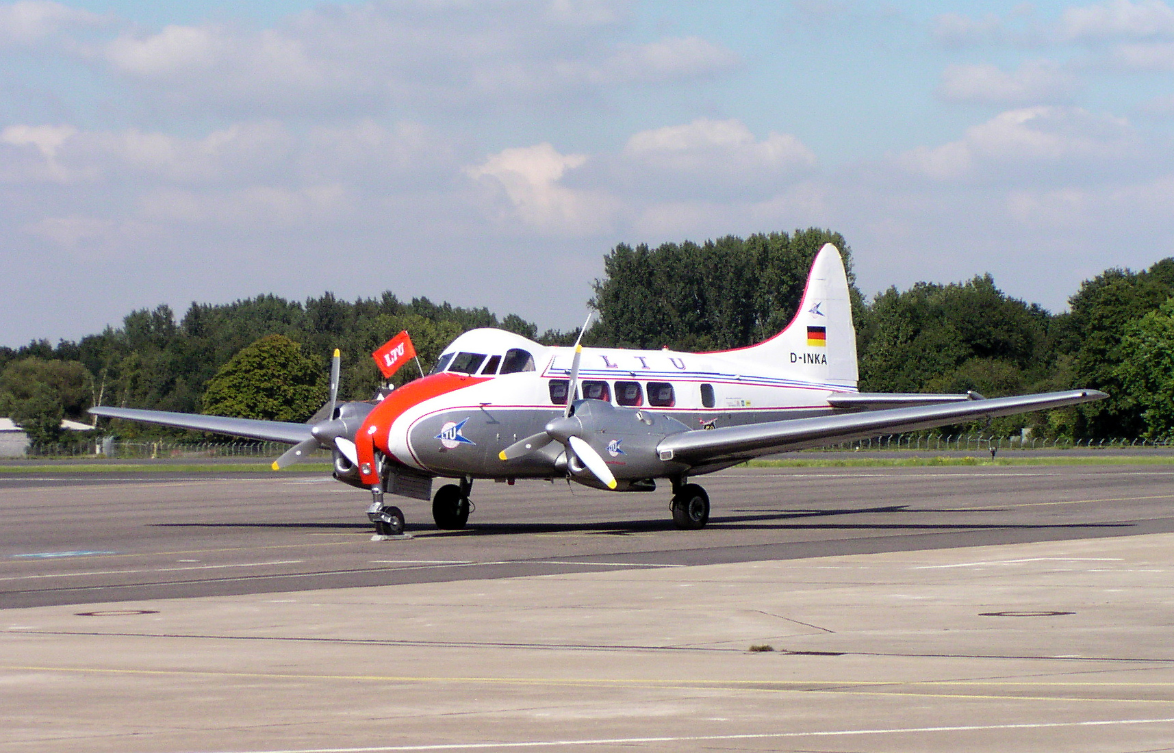 Description: LTU 50th anniversary De Havilland DH-104 Dove, September 2005 at Mönchengladbach Airport. Photographer: Arcturus Licence: GFDL + cc-by-sa-2.0-de